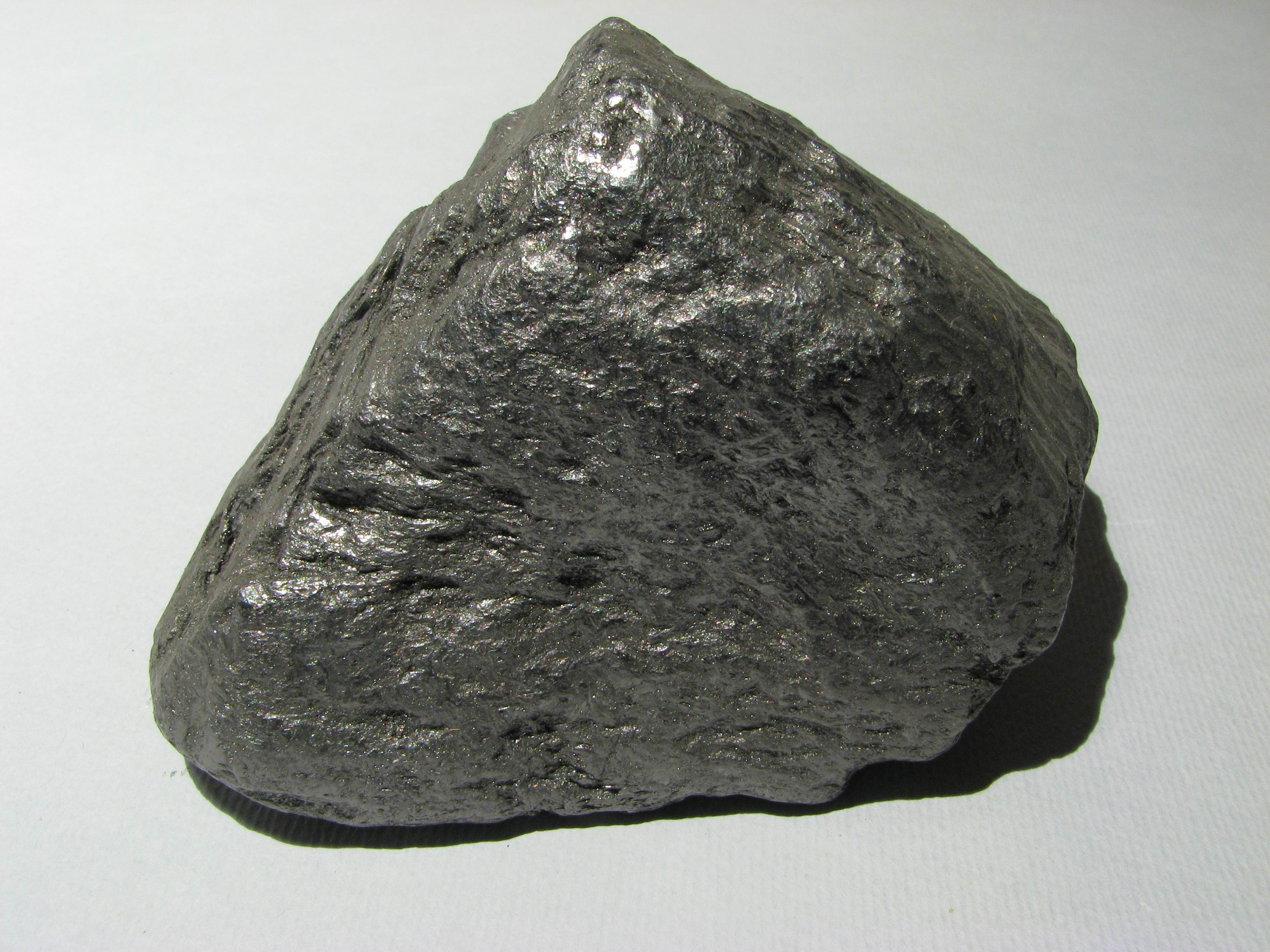 Graphite, massive specimen - Ceylon